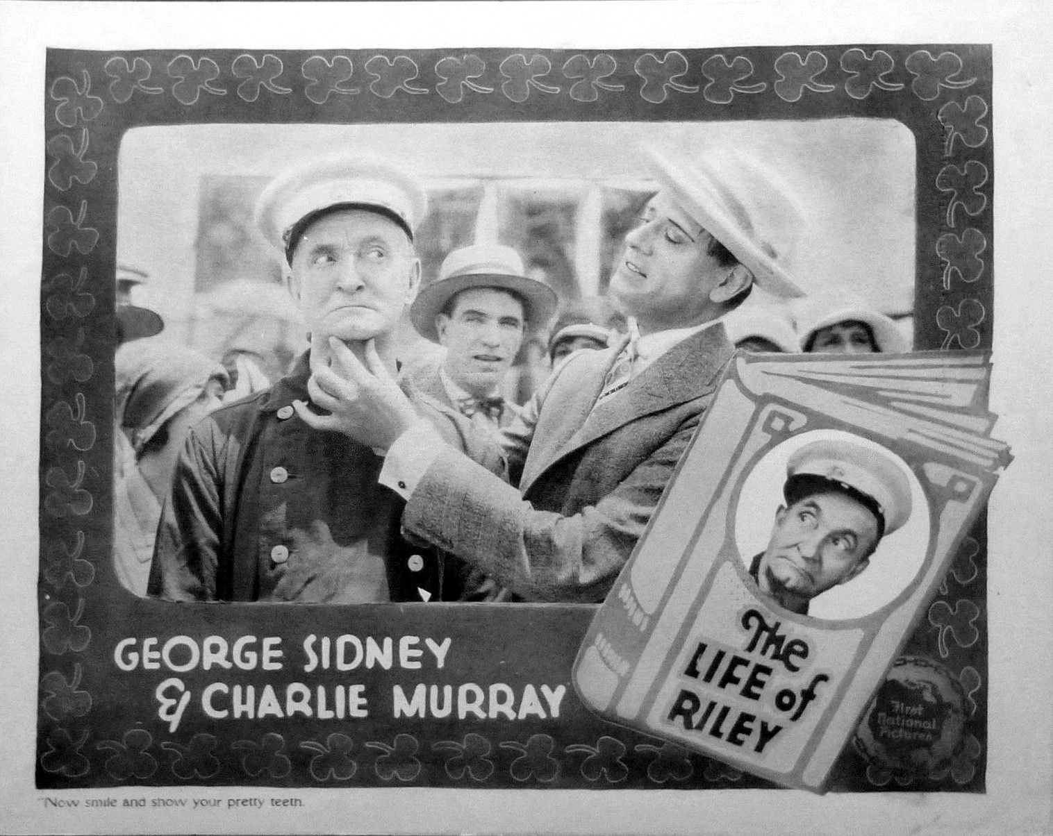 Lobby card for the American comedy film The Life of Riley (1927) with George Sidney and Charles Murray.